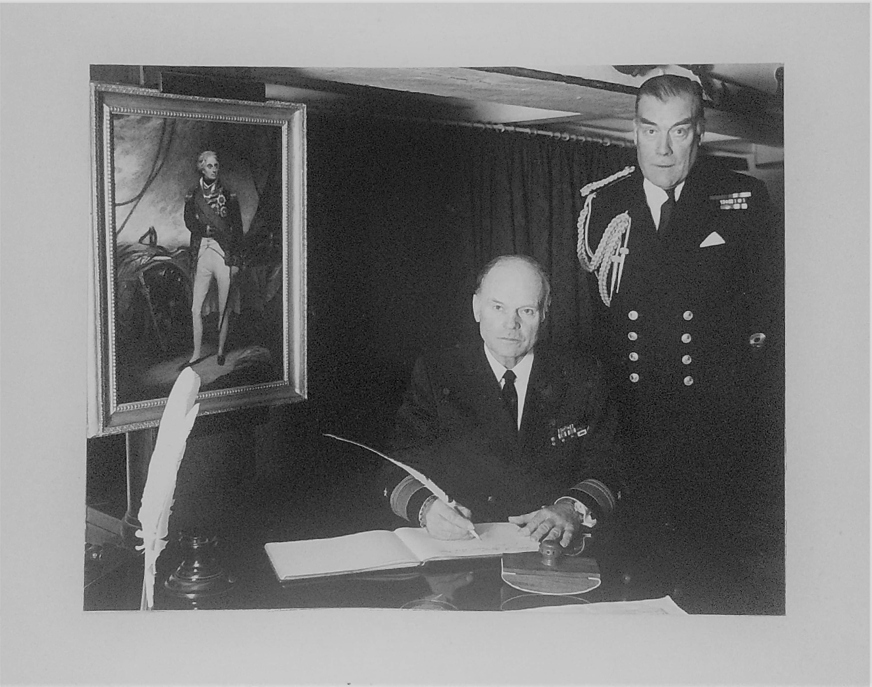 Hans-Helmut Klose signs the HMS Victory guest book on the occasion of his retirement, he he also went to sea under British command after World War II. Hans-Helmut Klose retires, signs the book at HMS Victory, seen with Admiral Sir David Williams